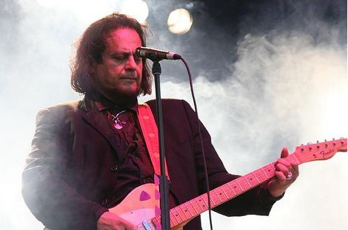 Tito Larriva in Dusseldorf, Germany